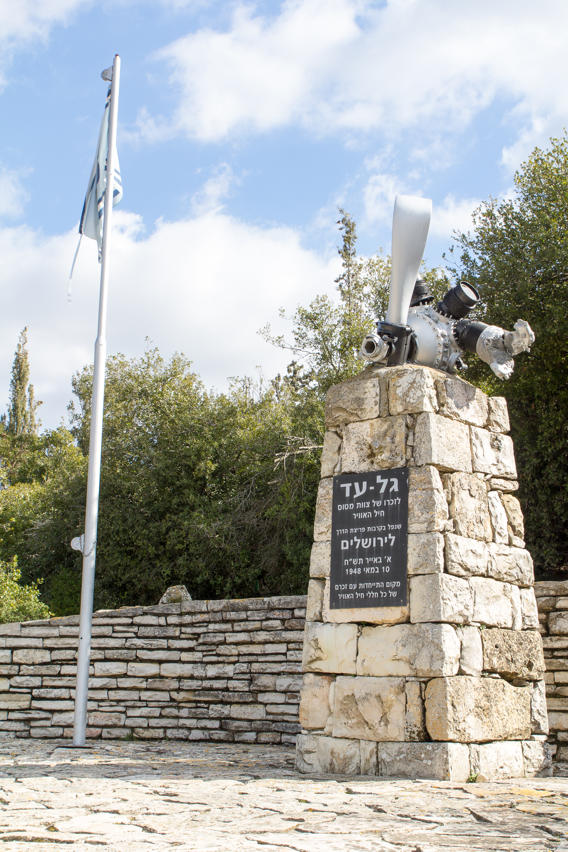 Israeli Air Force memorial site on Pilots Mountain